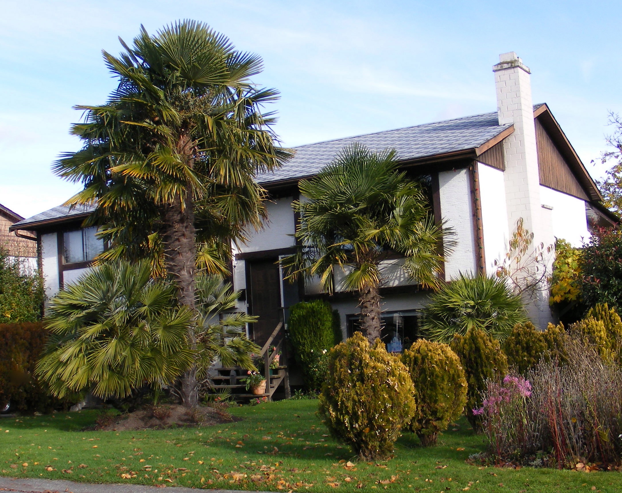 Palms in front of a house